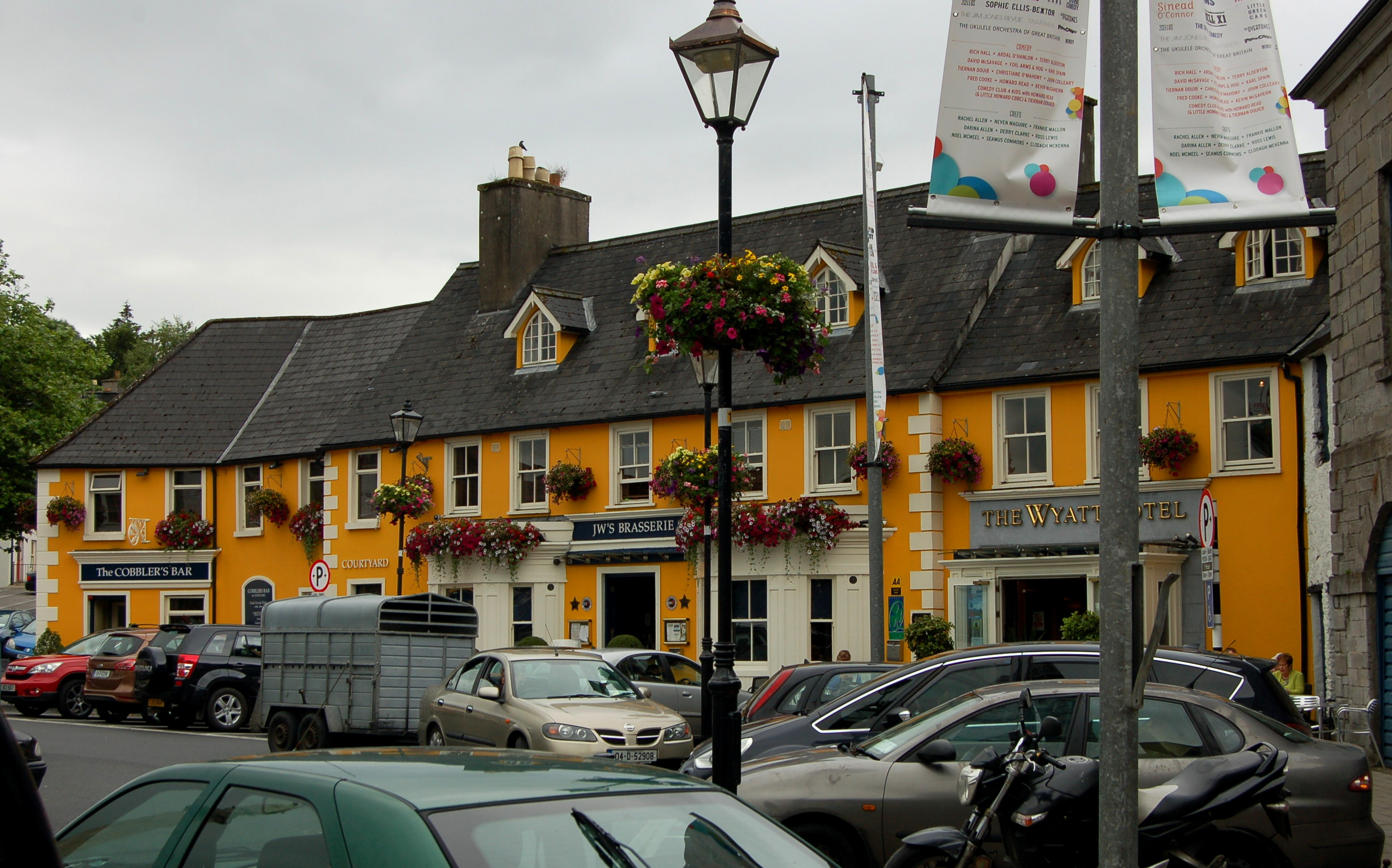 The Wyatt Hotel in The Ocatagon, in Westport, Co. Mayo, Ireland